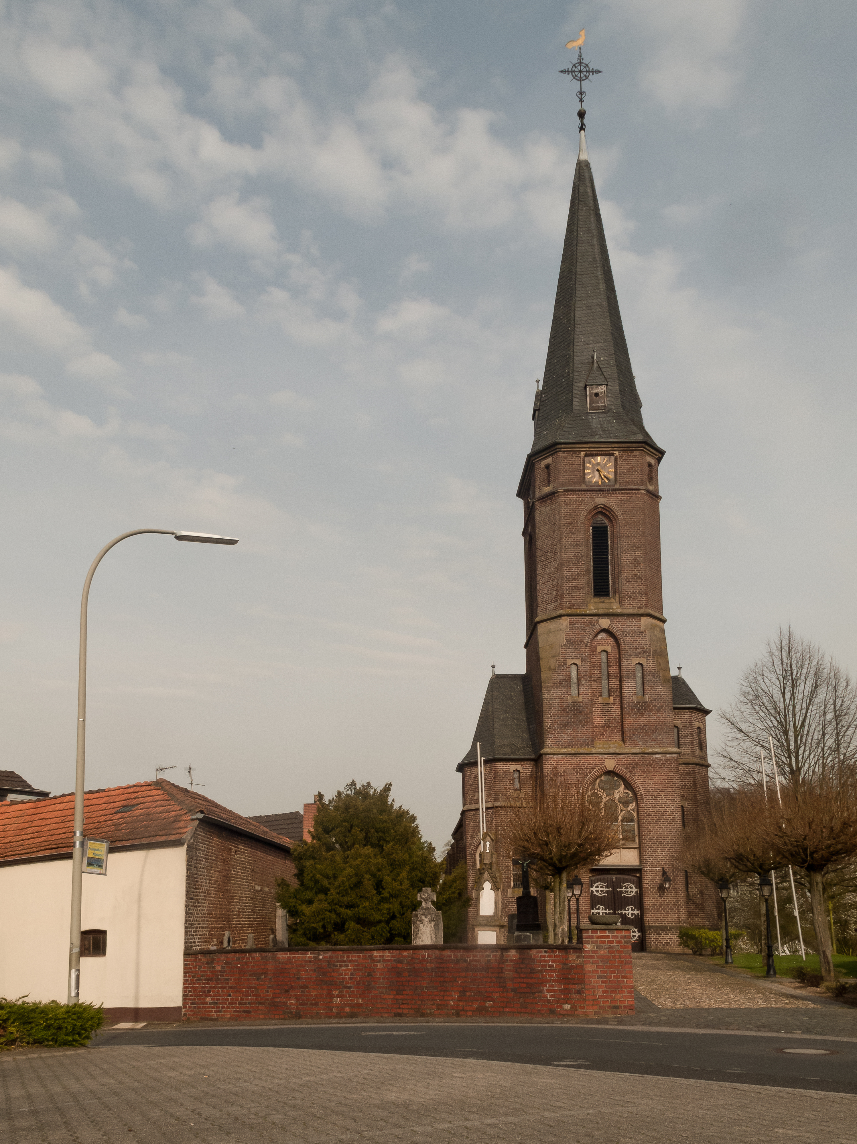 Oberkrüchten, church: katholische Pfarrkriche Sankt Martin This is a photograph of an architectural monument.